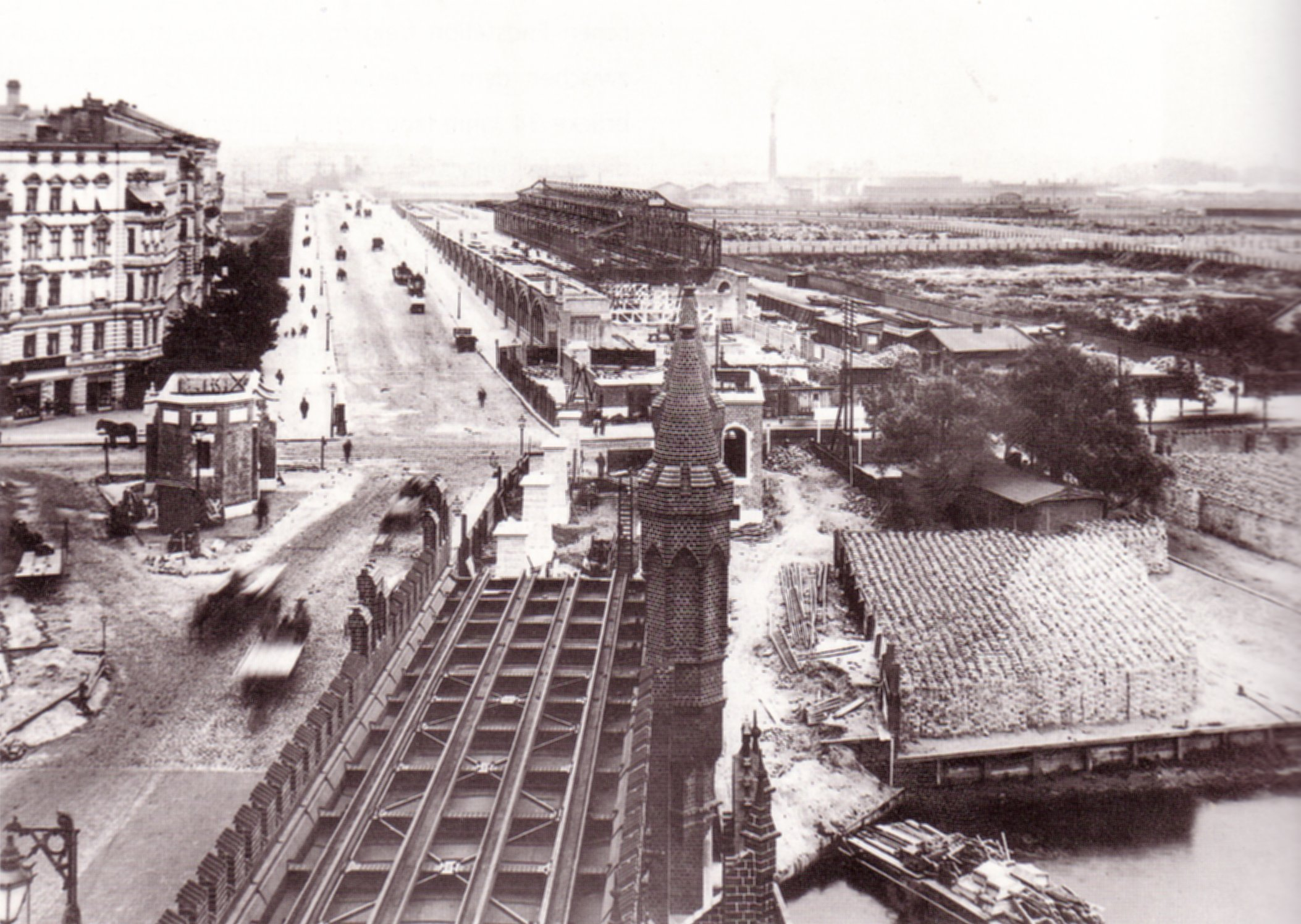 construction works for the new elevated U-Bahn station "Stralauer Tor" ("Osthafen" from 1924, destroyed 1945)